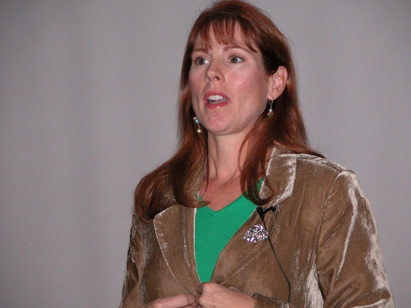 Patricia Tallman at Deepcon 7 in Fiuggi, Italy on March 24, 2006